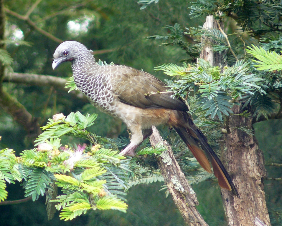 Colombian Chachalaca in Dapa, Valle del Cauca, Colombia (West Andes, 1700 m).